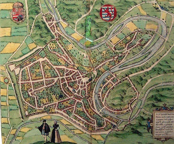 City of Luxemburg